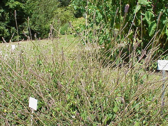 Species: Achyranthes aspera Family: Amaranthaceae Image No. 3